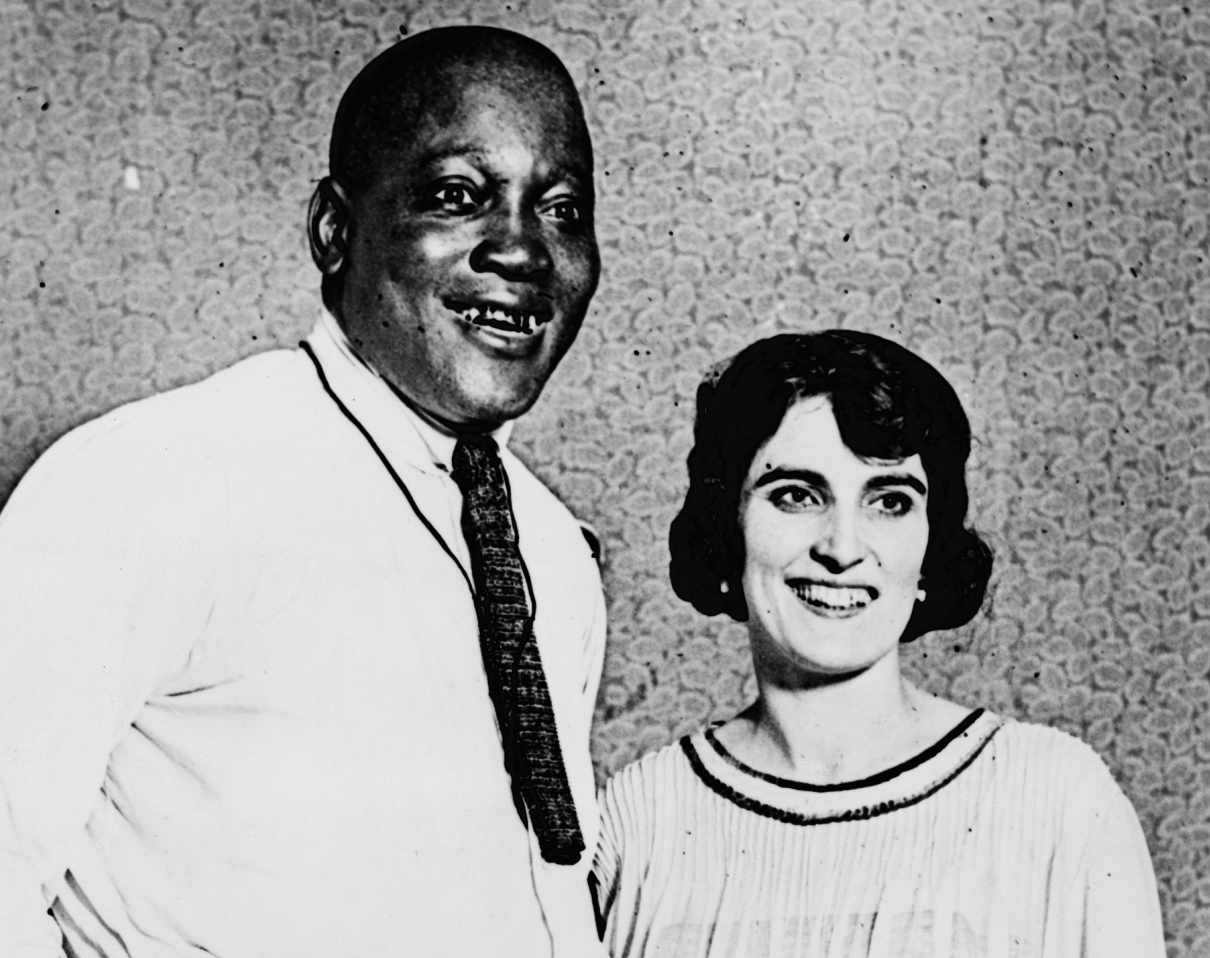 Title: Jack Johnson and wife, Lucille Cameron